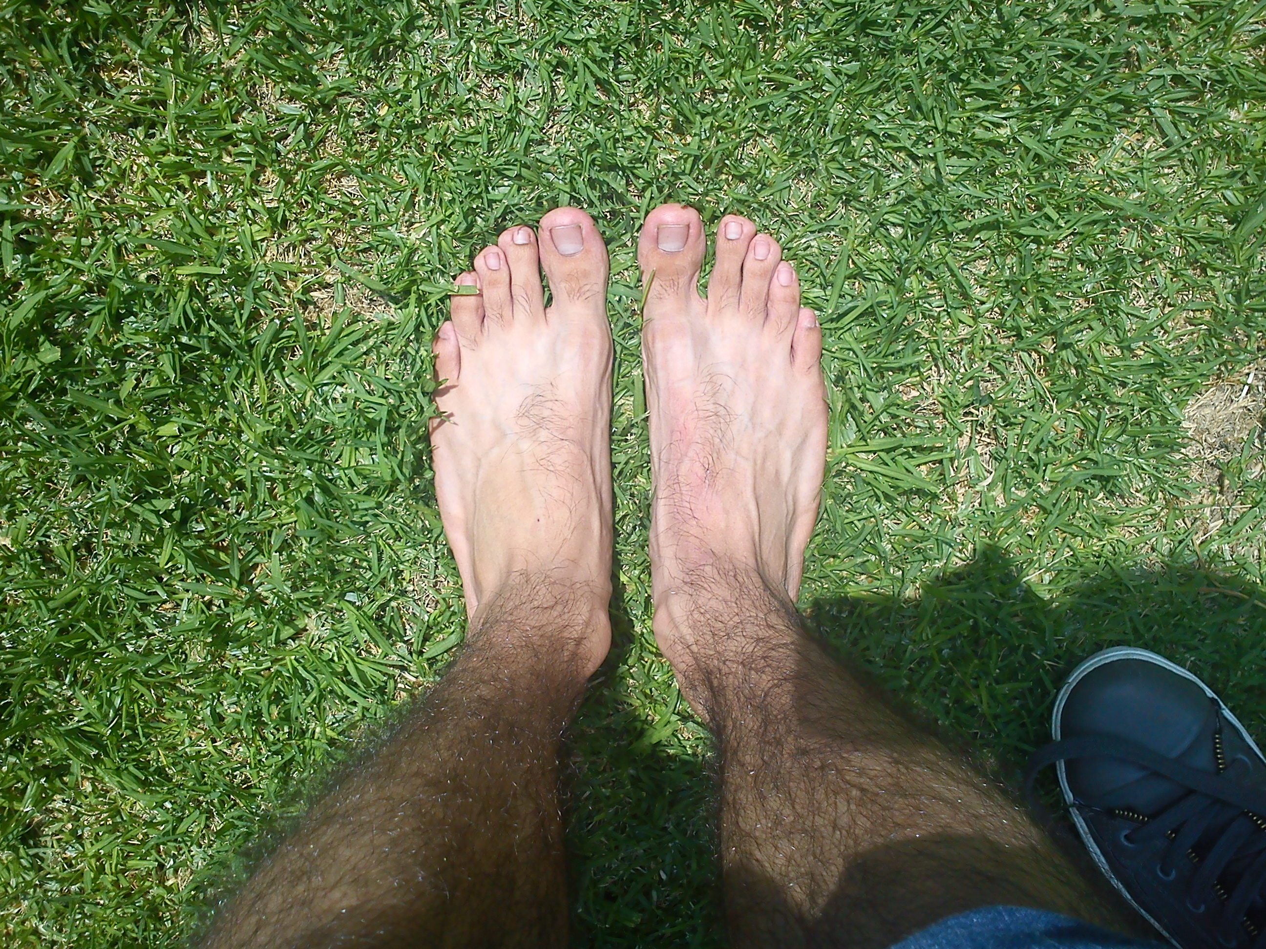 Latin American human foot